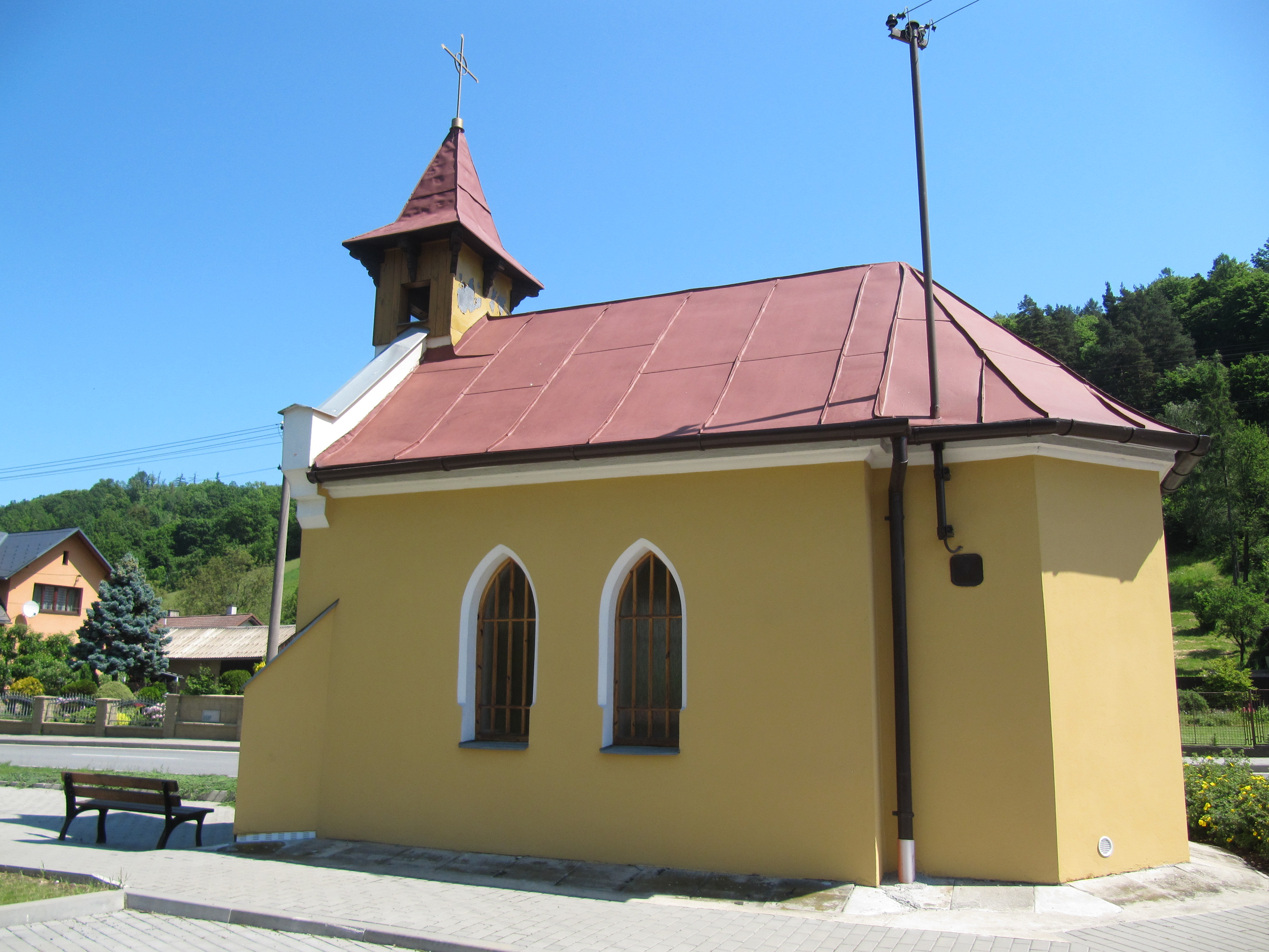 Hradec nad Moravicí, Opava District, Czech Republic, part Kajlovec.